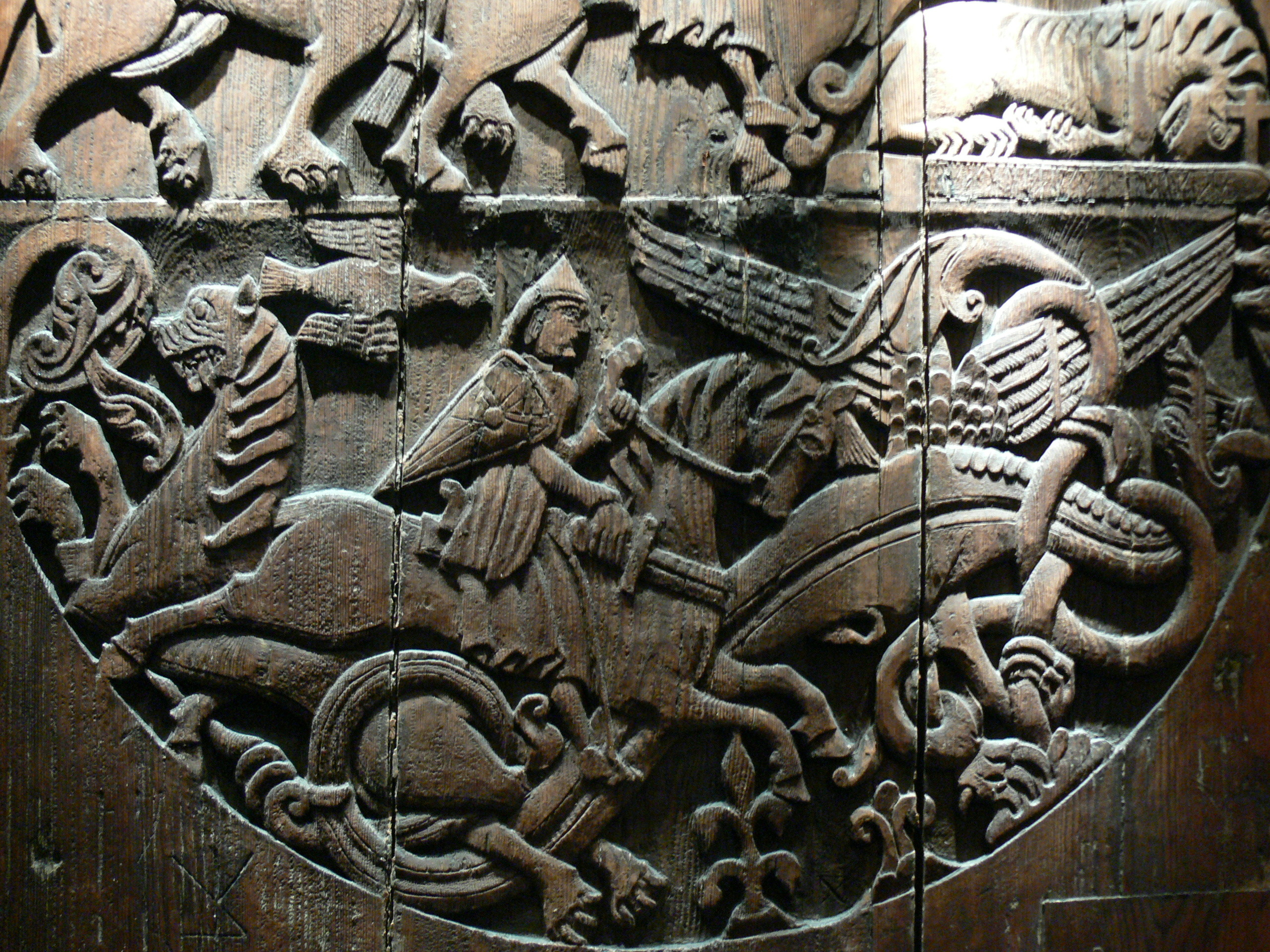 National Museum of Iceland, Reykjavik. The Valþjofstaður door ( ca.1200 AD ): A knight is slaying a dragon thereby saving the life of a lion.